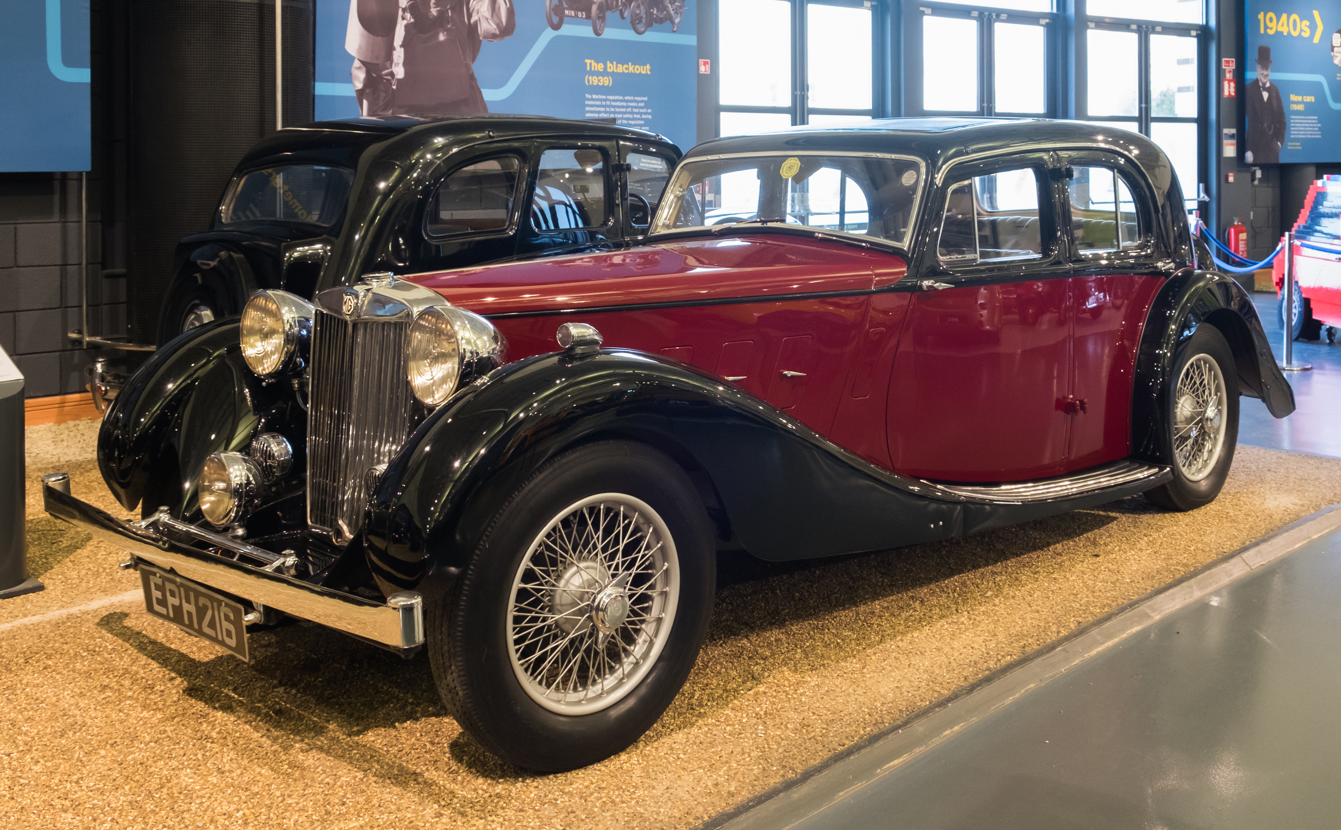 A 1936 MG SA. This car, with registration mark EPH 216, is now kept at the British Motor Museum, Gaydon, UK.